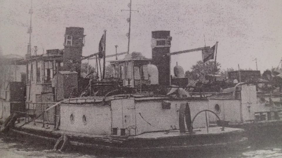 River boats of the Romanian Hydraulic Service, modified to carry torpedoes and used in combat in August 1916